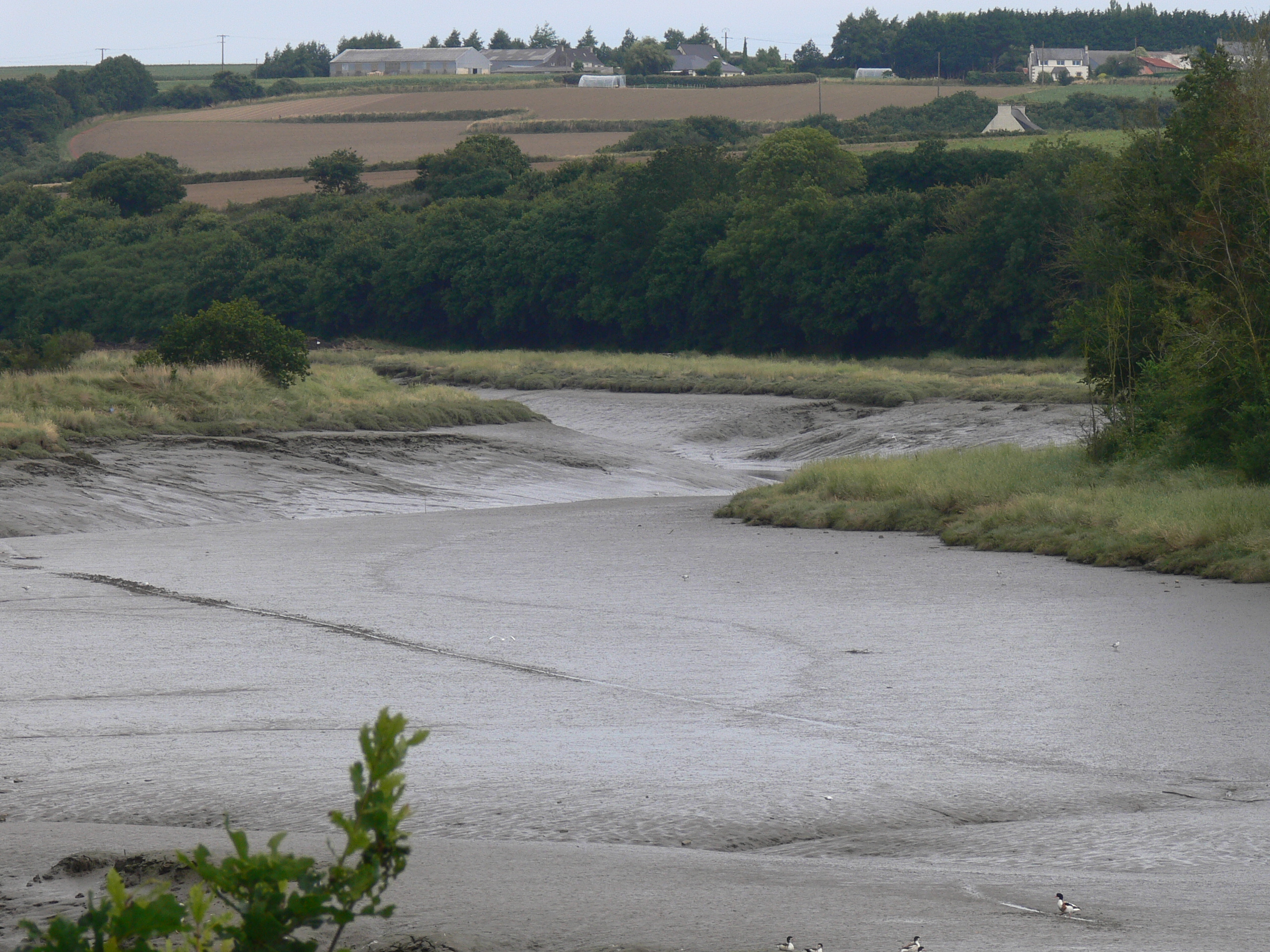 Mudflats of the french coastal river The River Penzé (Summer 2010), upstream from the estuary of the river Penzé In the Baie de Morlaix (fr) (filed ZNIEFF, rich in birds with sometimes Alca torda, not far from the mudflats of Locquénolé (Important for birds) and from the River of Morlaix who form the other great natural infrastructure of the French Blue Frame in this area. For" Water management", this river is Concerned by SAGE (Schéma d'aménagement et de gestion des eaux) "Leon Trégor".